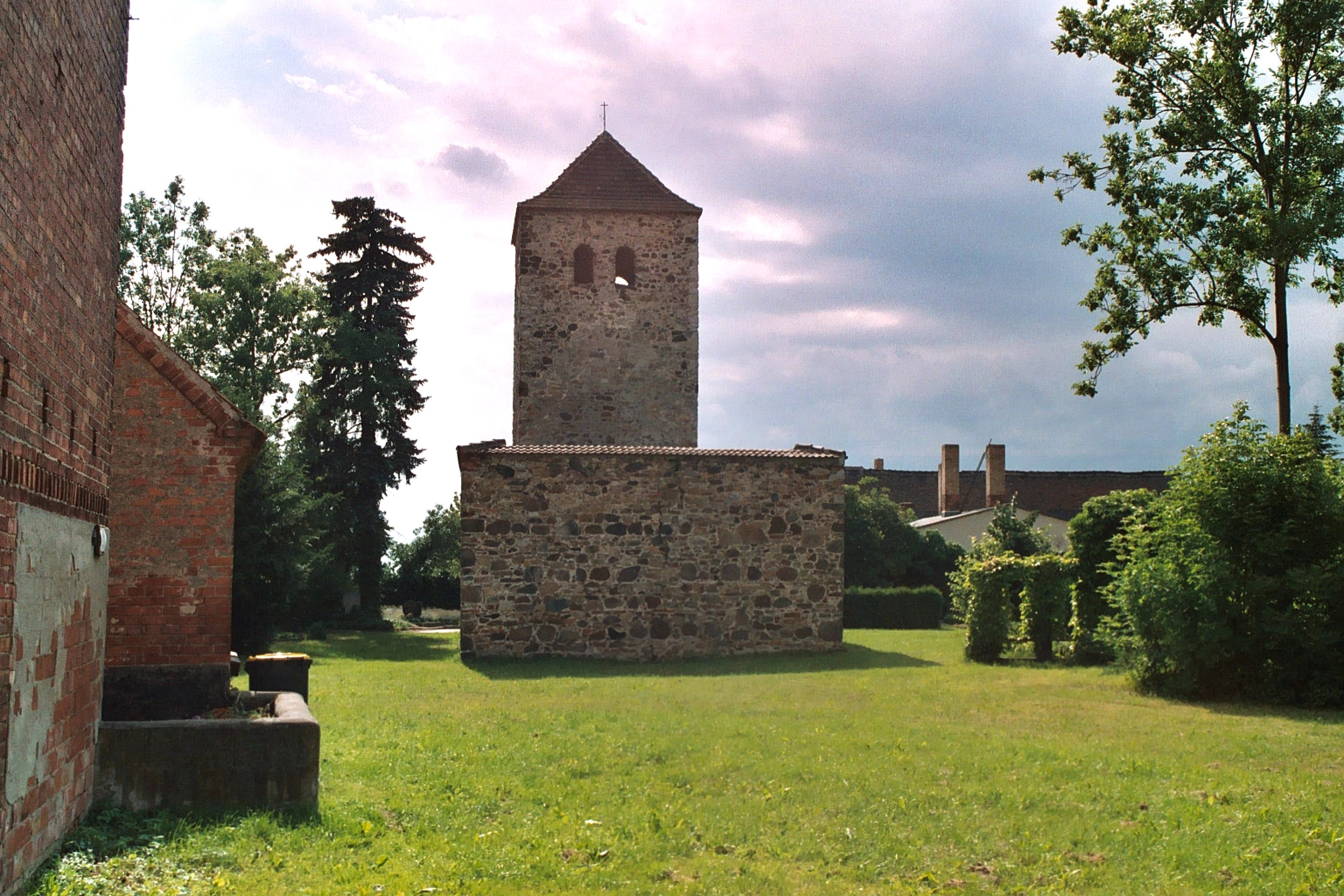 Lübs (Gommern), the church ruin in Großlübs